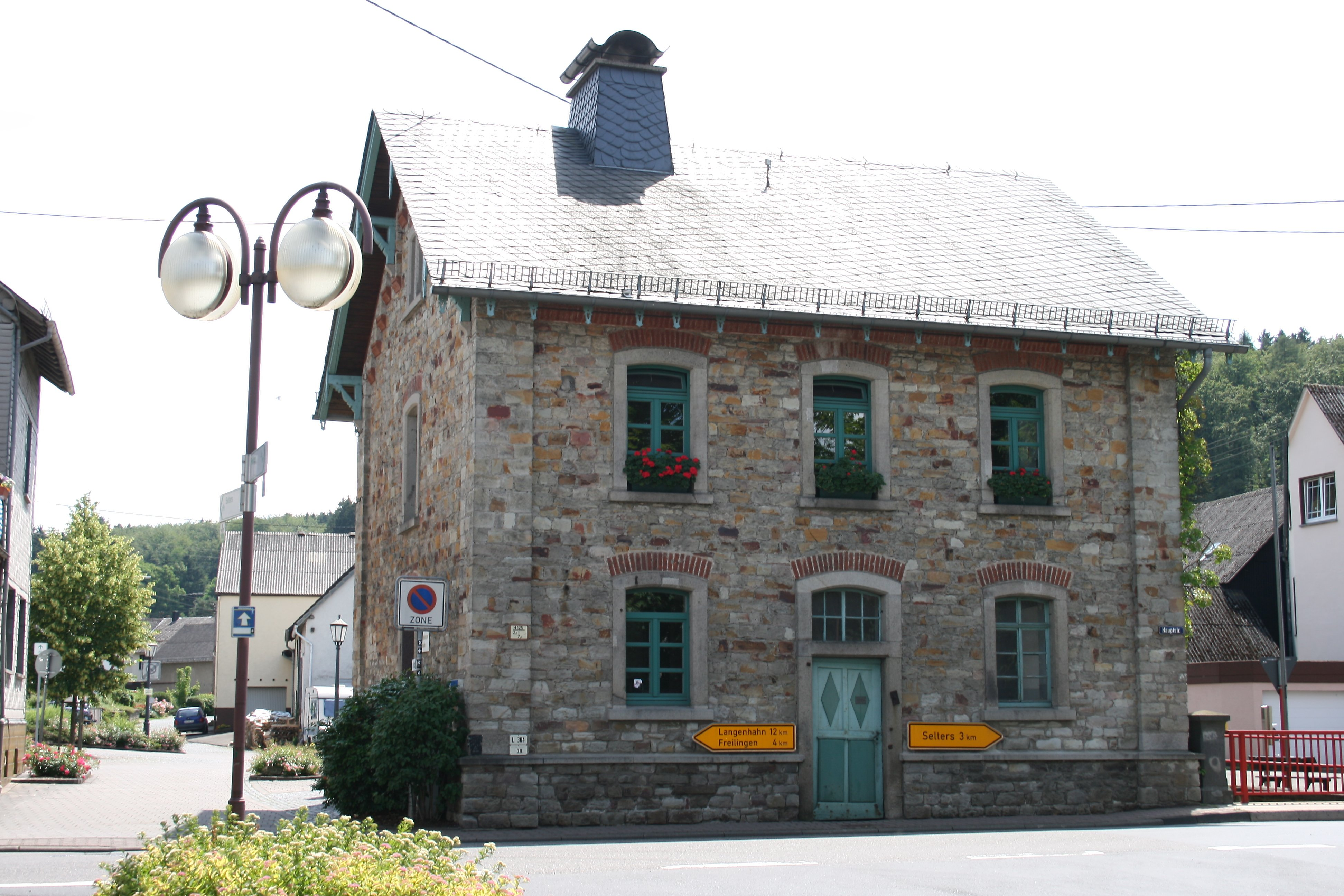 Village administration house 'Backes' in Maxsain, Westerwald, Germany